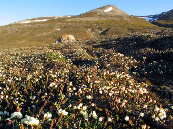 Arctic Bell-heather,Cassiope tetragona, Svalbard, July 2004, by Michael Haferkamp